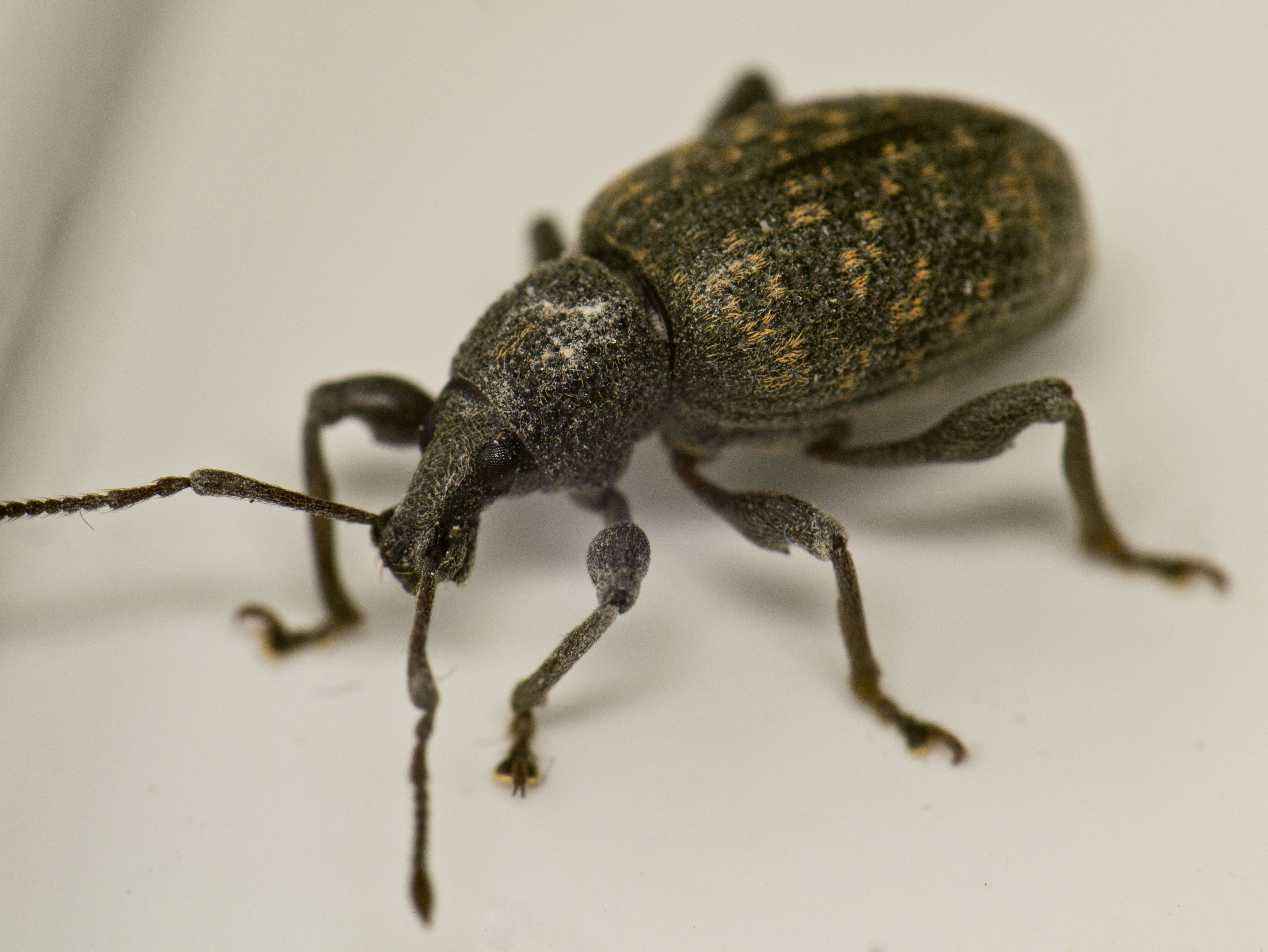 Taken with Panasonic G3 with vintage Orestor 2.8/135 lens and modern Raynox 250 macro.